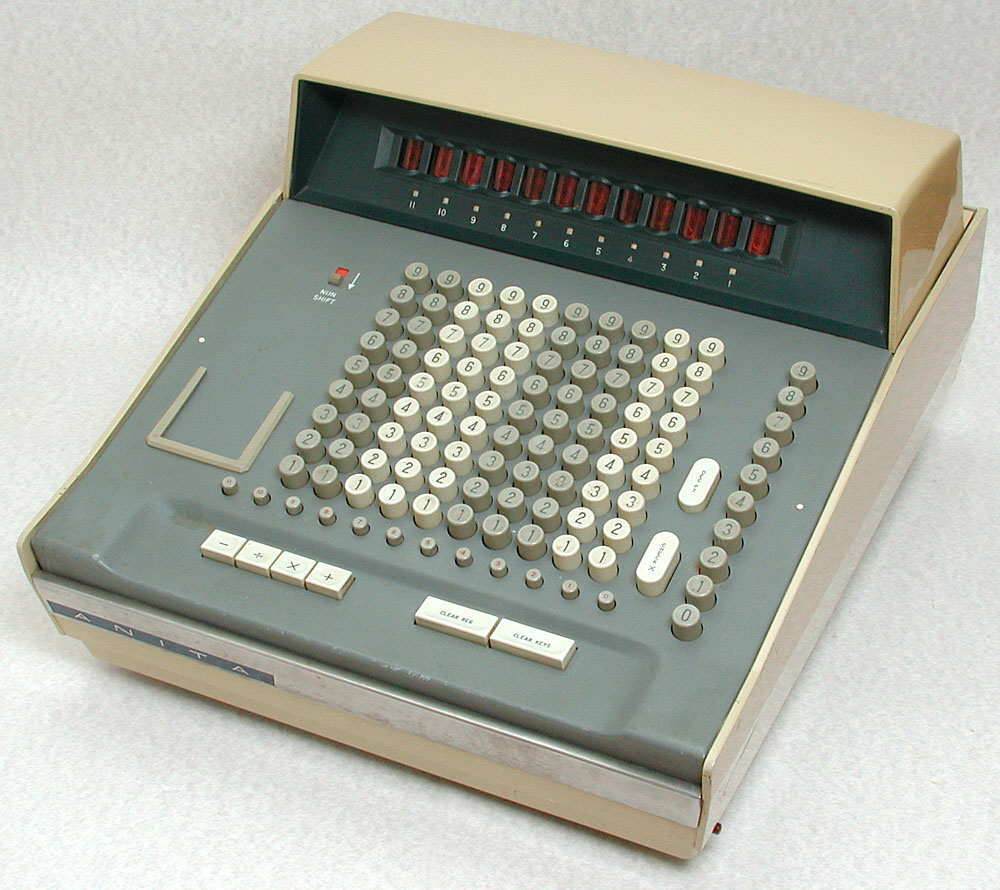 Anita Mk VIII calculator. Photograph taken by myself of a machine in my collection.